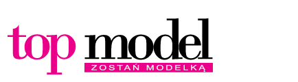 Top model Poland